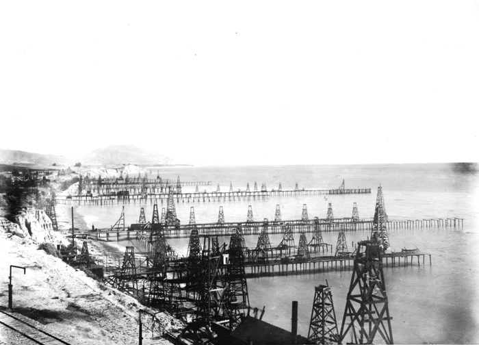 Oil wells on wharves over the Pacific Ocean, Summerland Oil Field, Santa Barbara County, California, USA